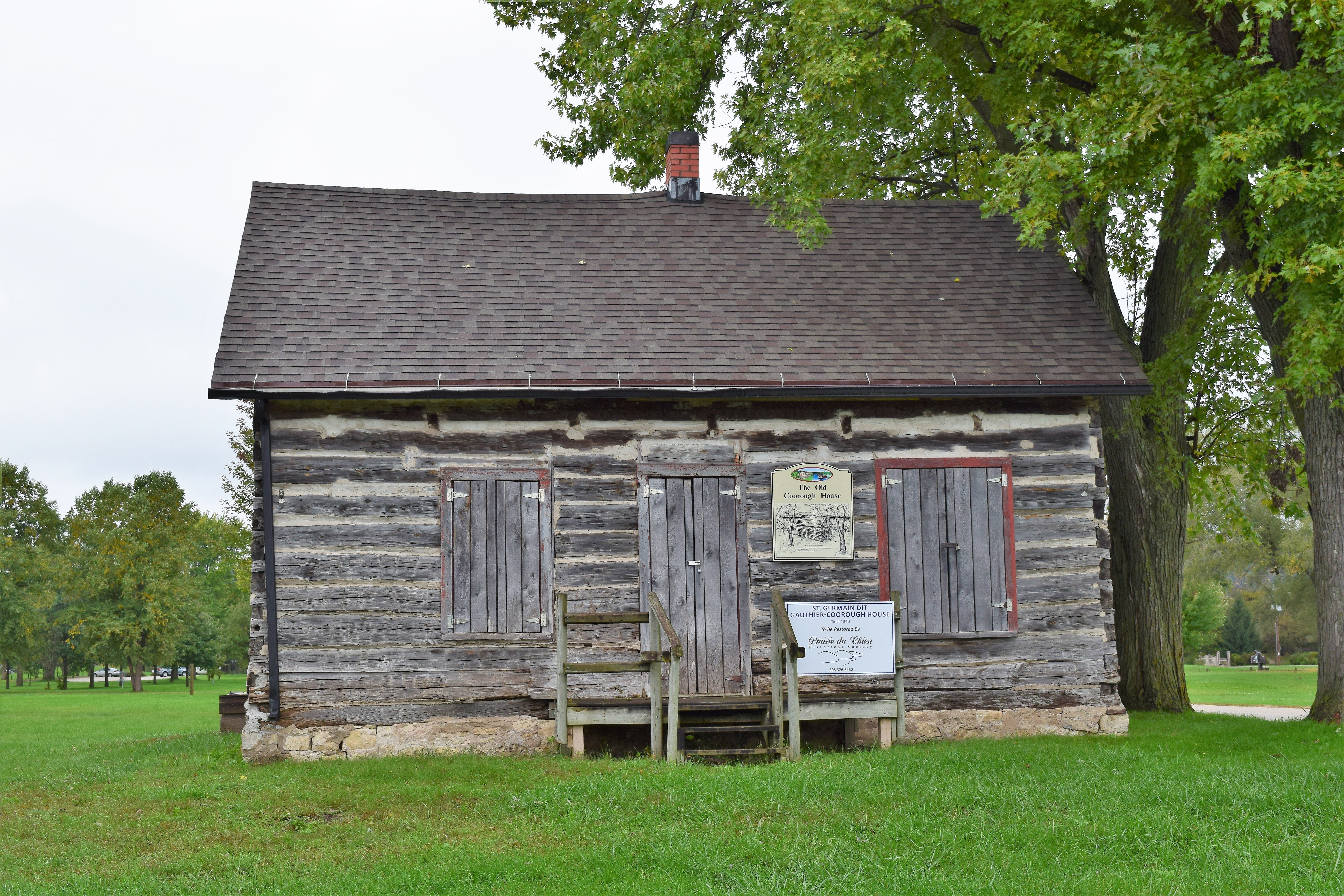 The St. Germain dit Gauthier House, a log cabin on St. Feriole Island in Prairie du Chien, Wisconsin. The house is listed on the National Register of Historic Places.